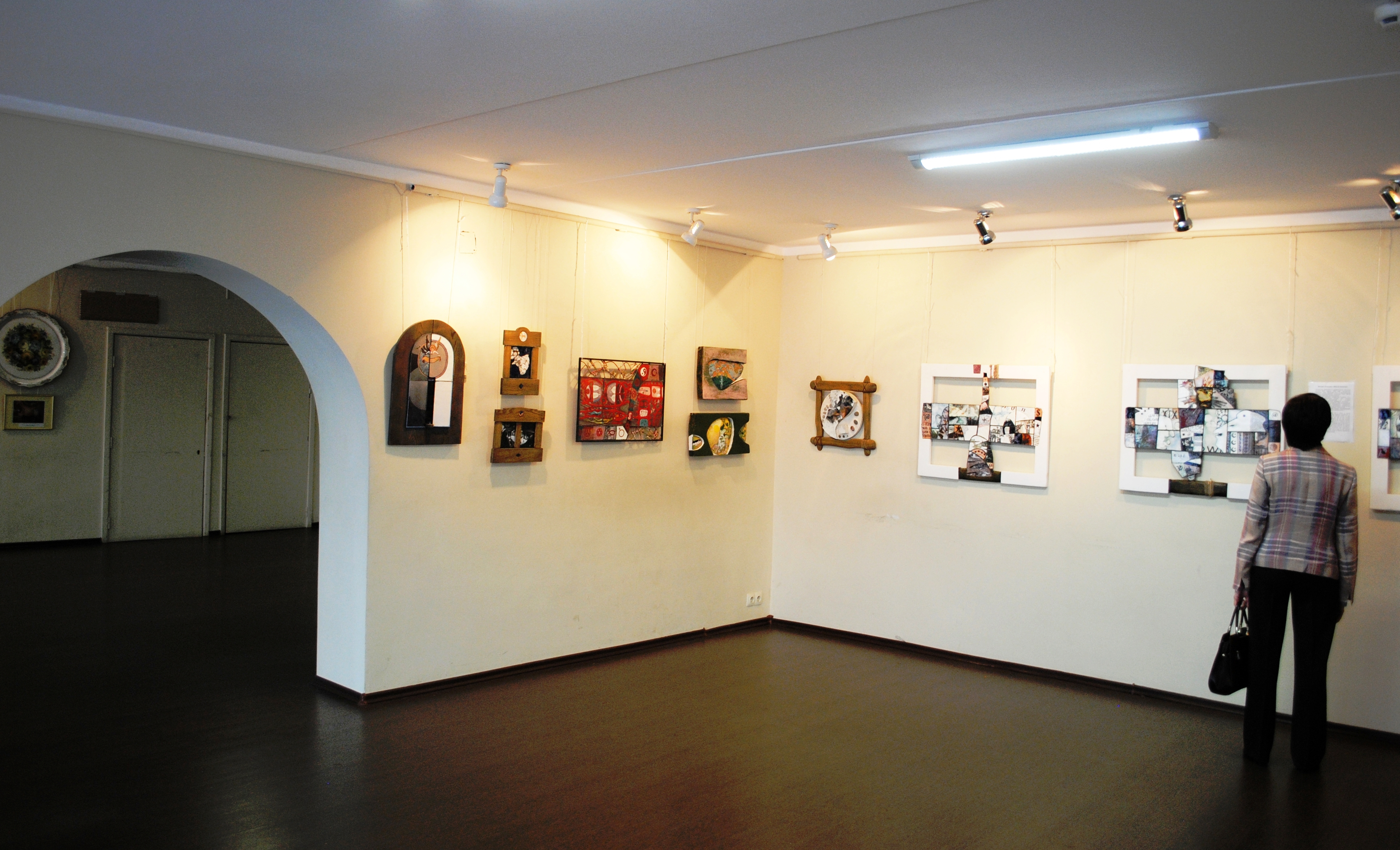 Mikhail Selishchev